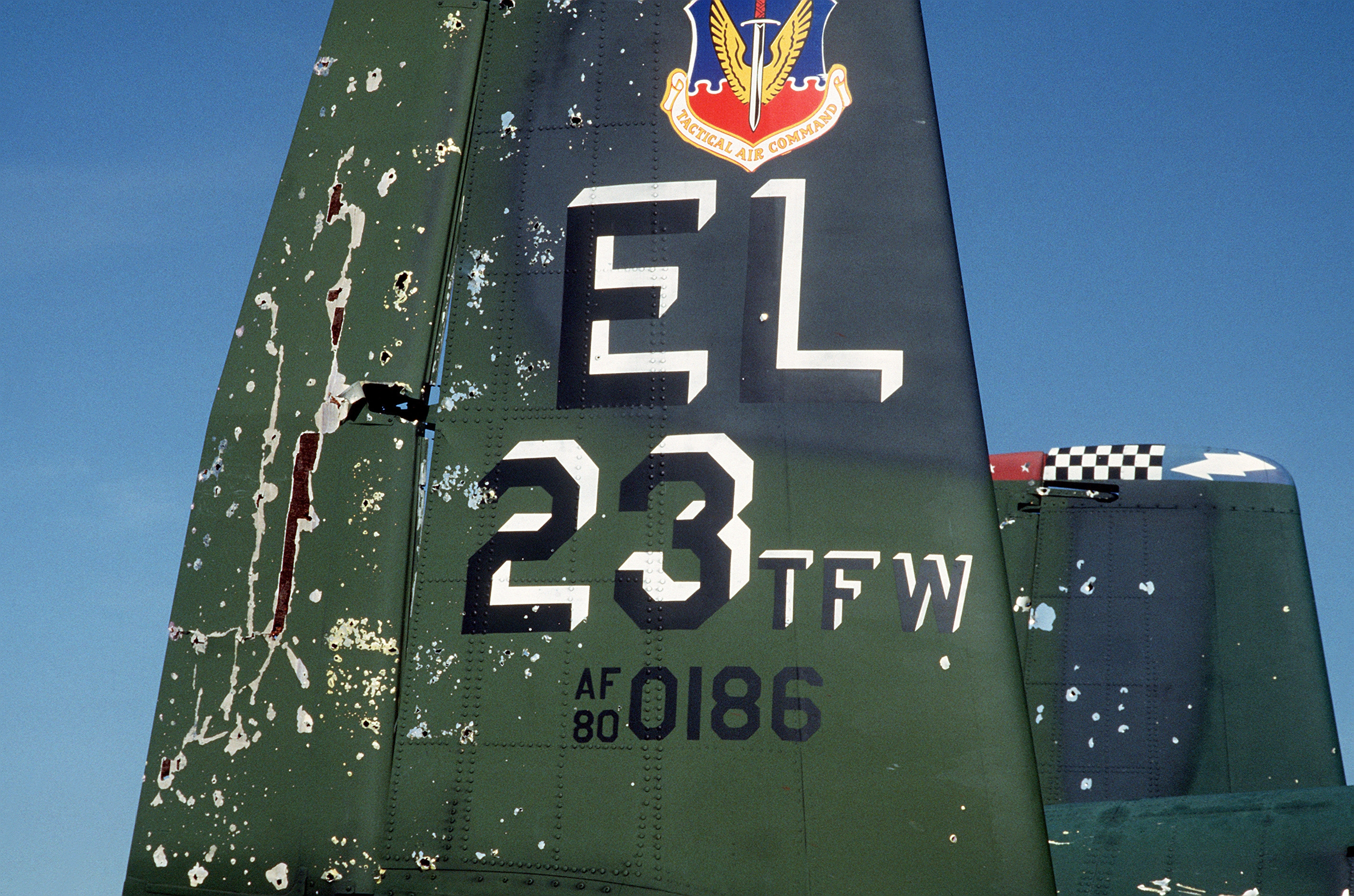 A close-up view of the tail section of a 23rd Tactical Fighter Wing A-10A Thunderbolt II aircraft. The plane sustained damage when an SA-16 missile exploded near it during Operation Desert Storm. The 76th is represented by the red marking on the rudder.